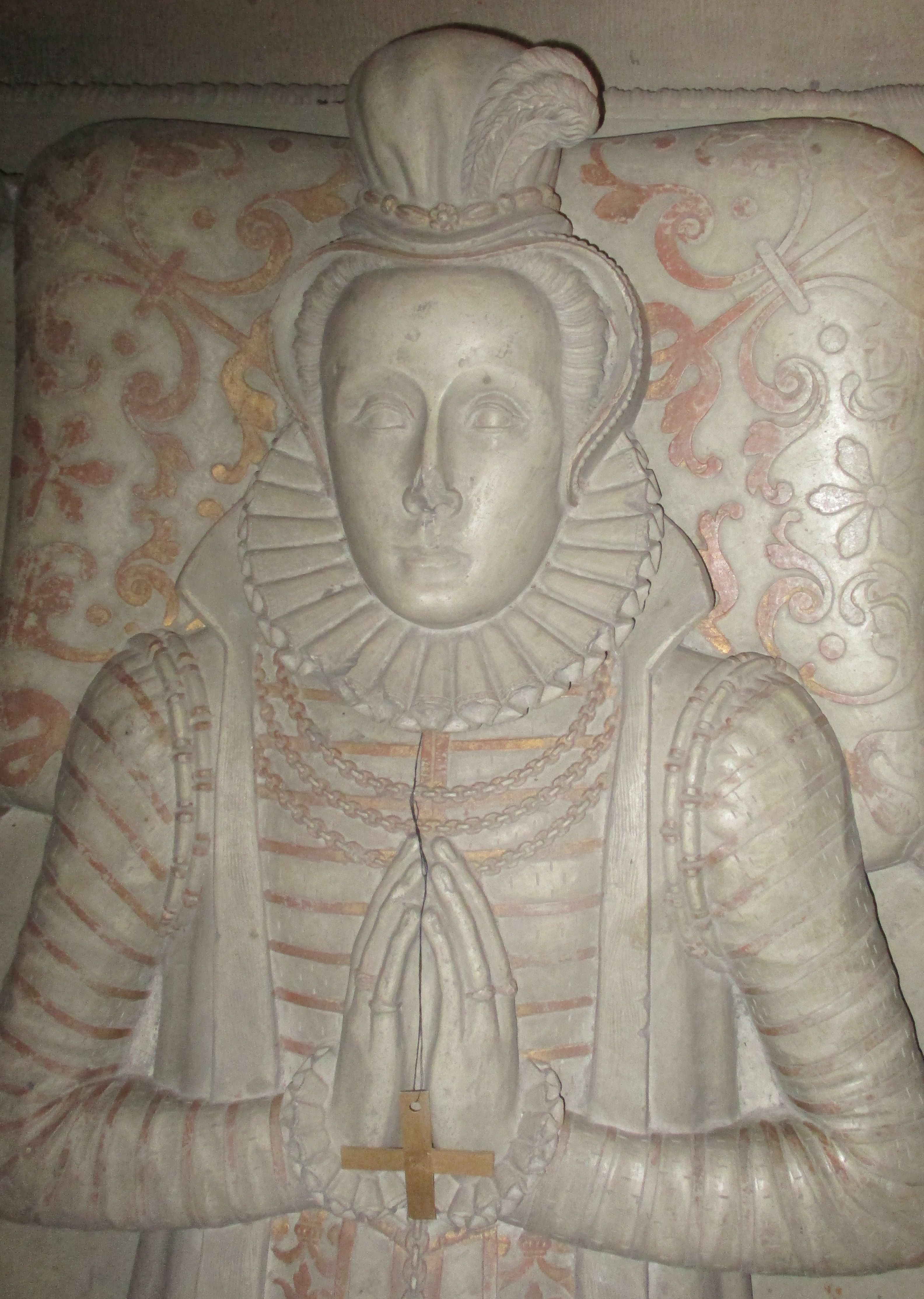 Sophia Gyllenhielm as depicted on her grave monument sculpted by Arent Passer in 1595Place: Tallinn Cathedral, Tallinn, Estonia